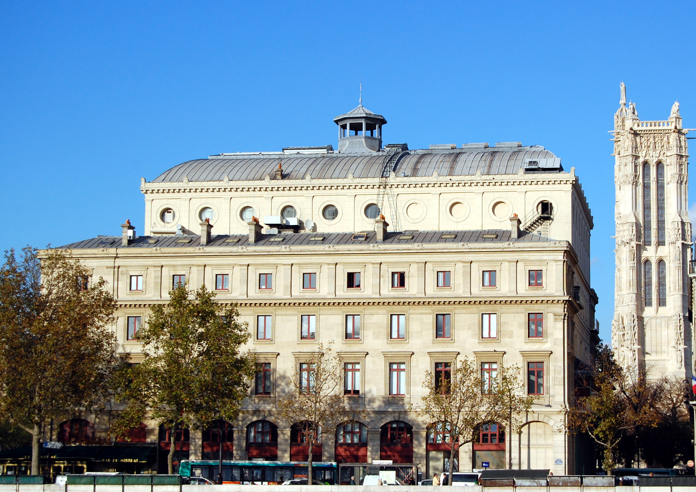 Theatre de la Ville, seen from the Seine, Paris, France